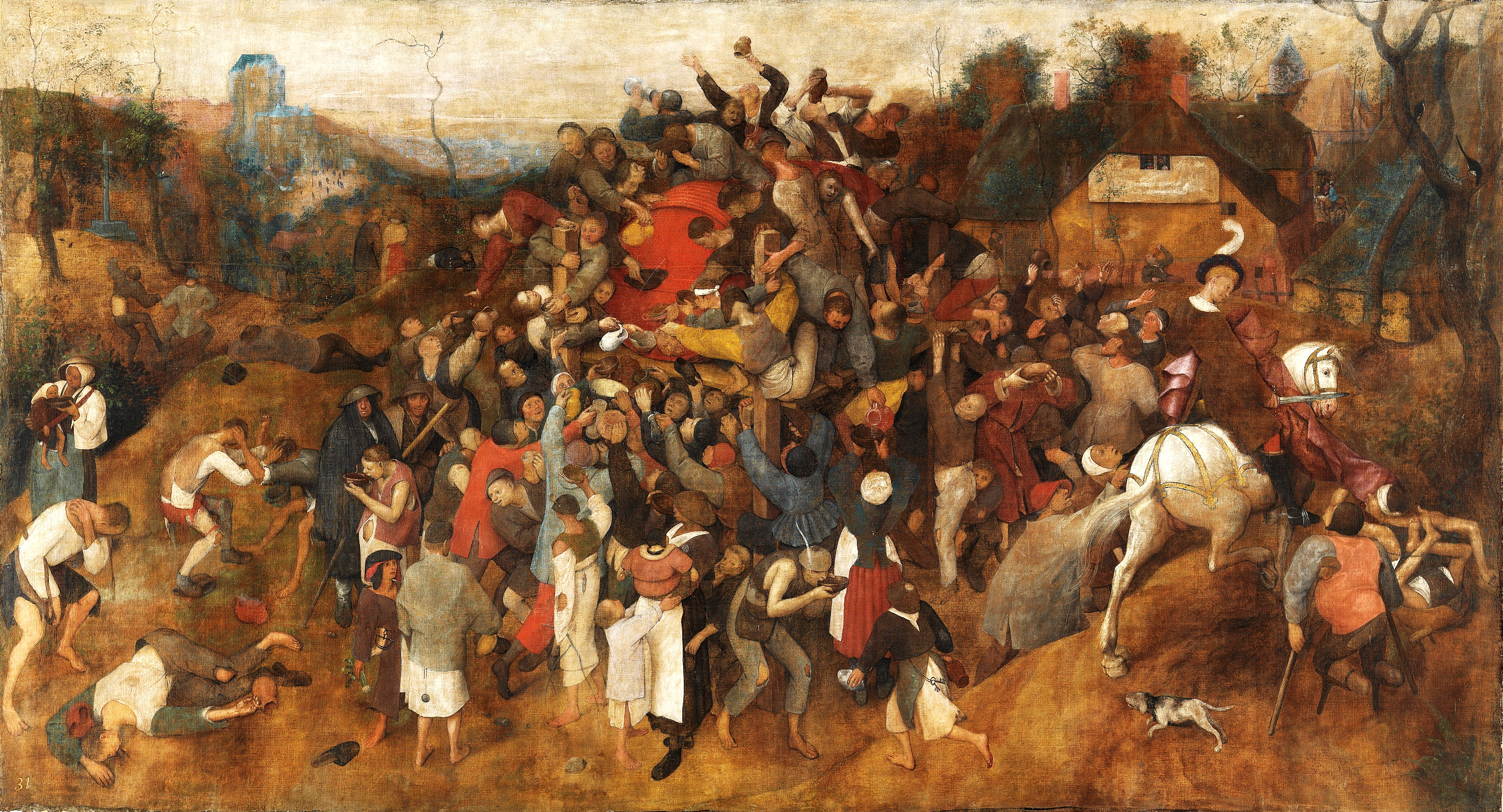 fotografía personal